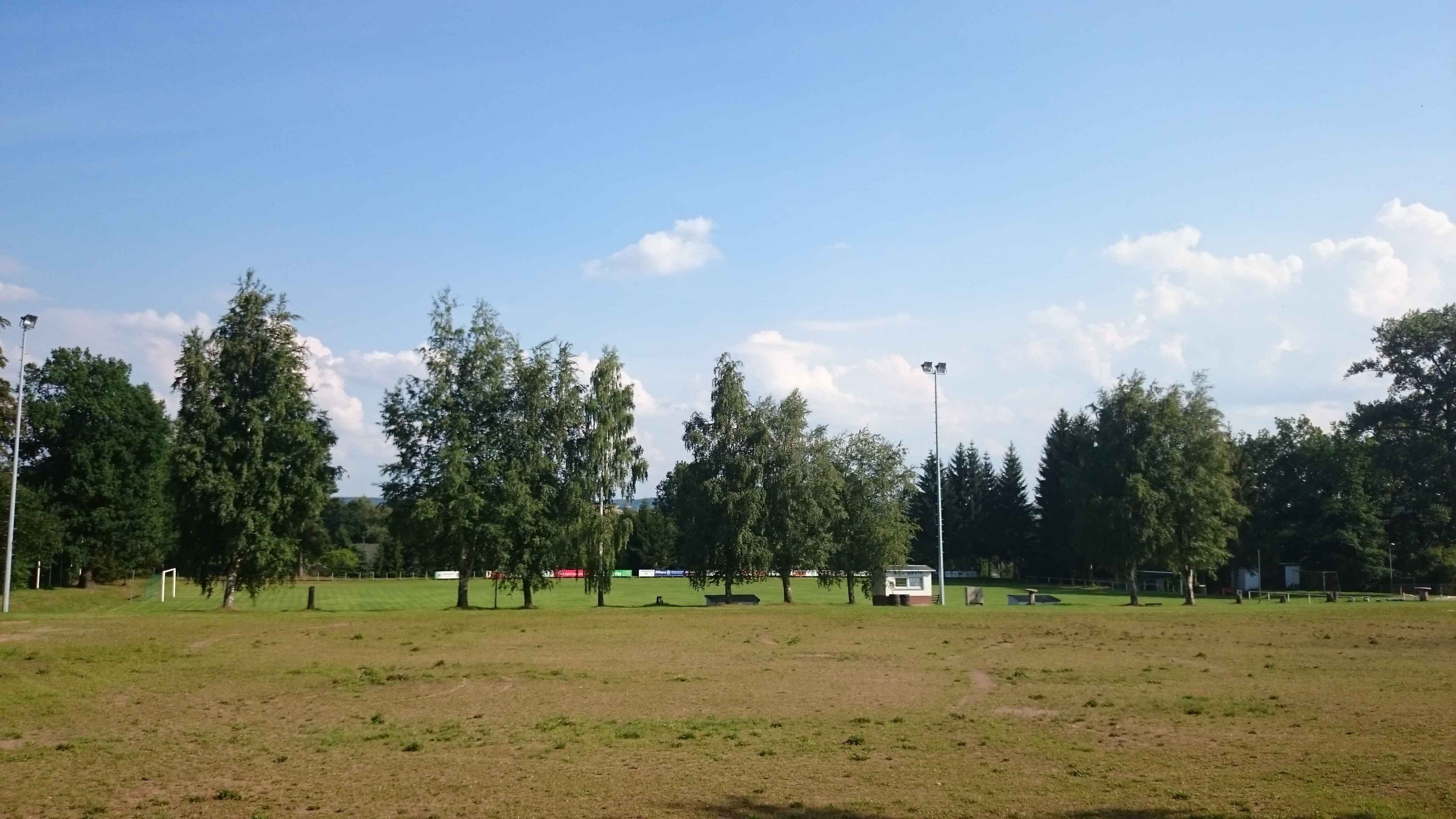 Football pitch of Category:Lugau/Erzgeb.